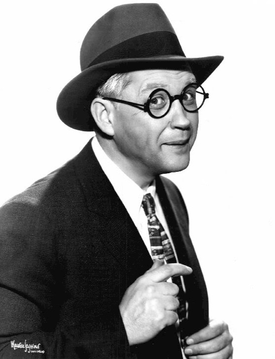 Photo of Jim Jordan as Fibber McGee from the radio program Fibber McGee and Molly.